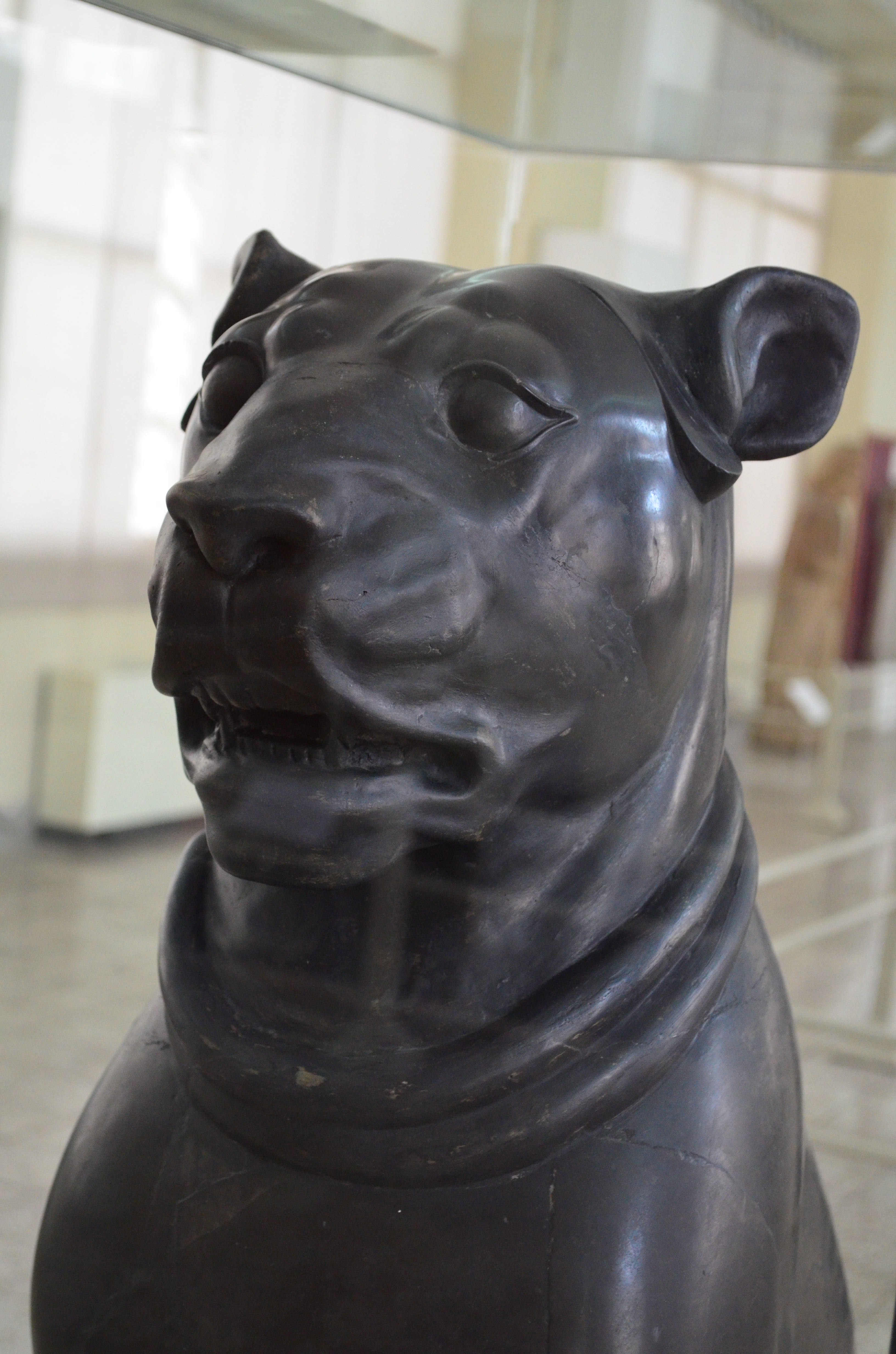 National Museum of Iran National Museum of Iran Native name